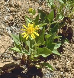 Wyethia reticulata (El Dorado mule ears, Agnorhiza reticulata) is endemic to the Pine Hill Preserve, in the western Sierra Nevada foothills, El Dorado County, California. The species is listed by the California Native Plant Society as "1B rare".